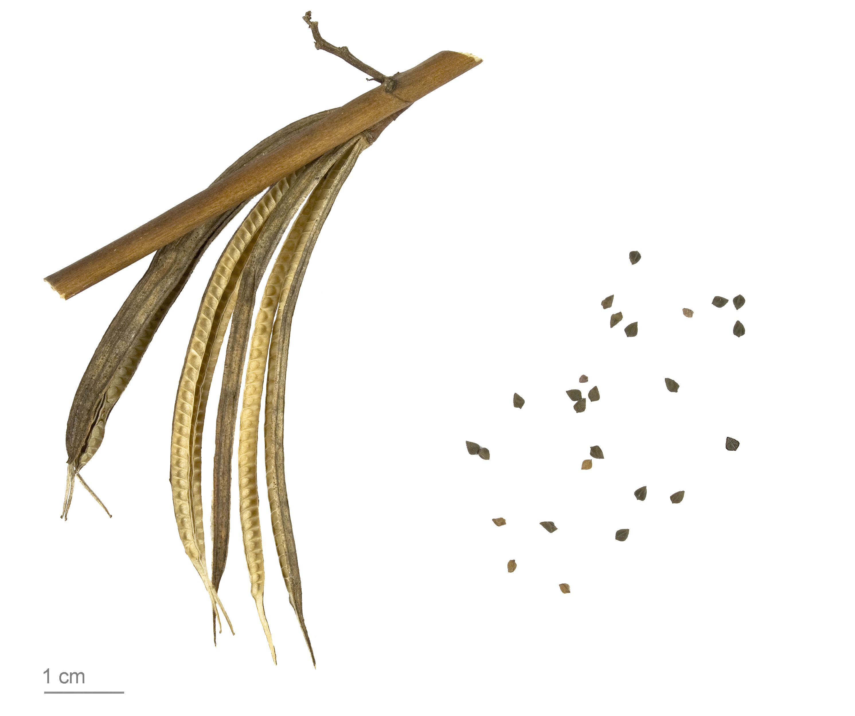 Corchorus olitorius, Mulukhiyah, seeds